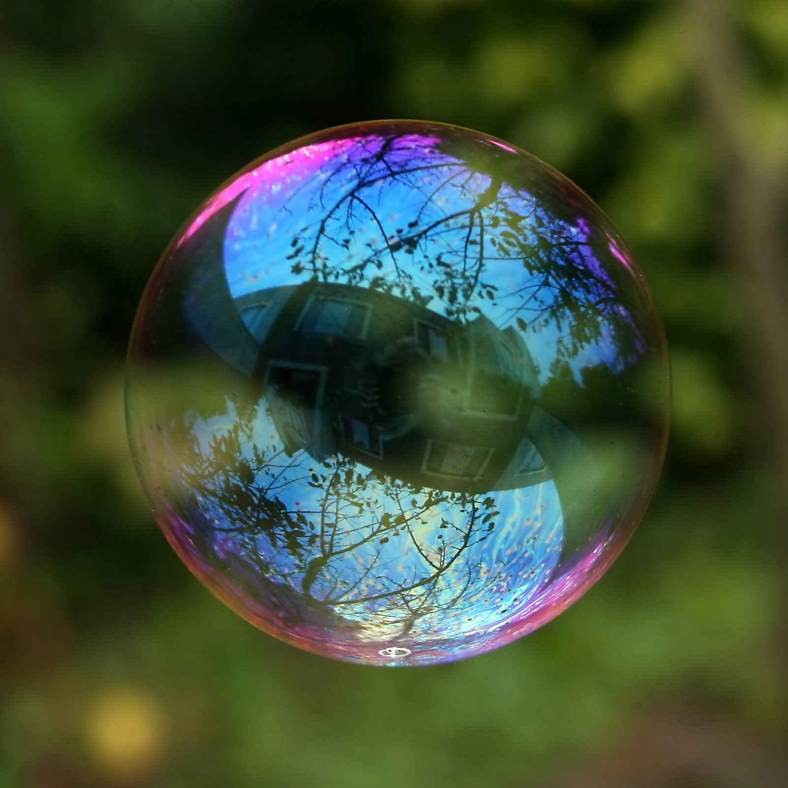 Reflection in a soap bubble.